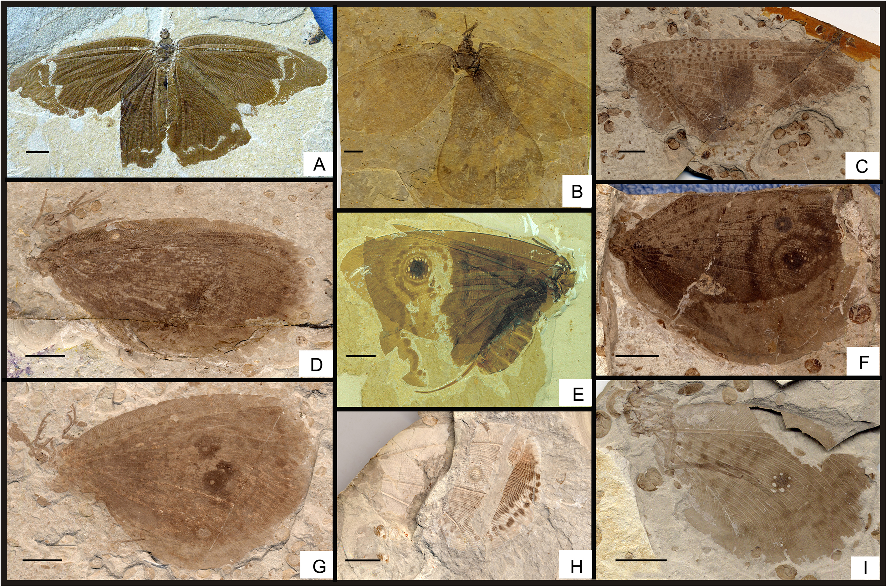 Structural diversity among Kalligrammatidae. A, Sophogramma lii Yang, Zhao and Ren, 2009 B, Oregramma aureolosa sp. nov. C, Stelligramma allochroma sp. nov. D, Affinigramma myrioneura sp. nov. E, Oregramma illecebrosa sp. nov. F, Kalligramma circularia sp. nov. G, Affinigramma myrioneura sp. nov. H, Apochrysogramma rotundum Yang, Makarkin and Ren, 2011. I, Kalligramma brachyrhyncha sp. nov.